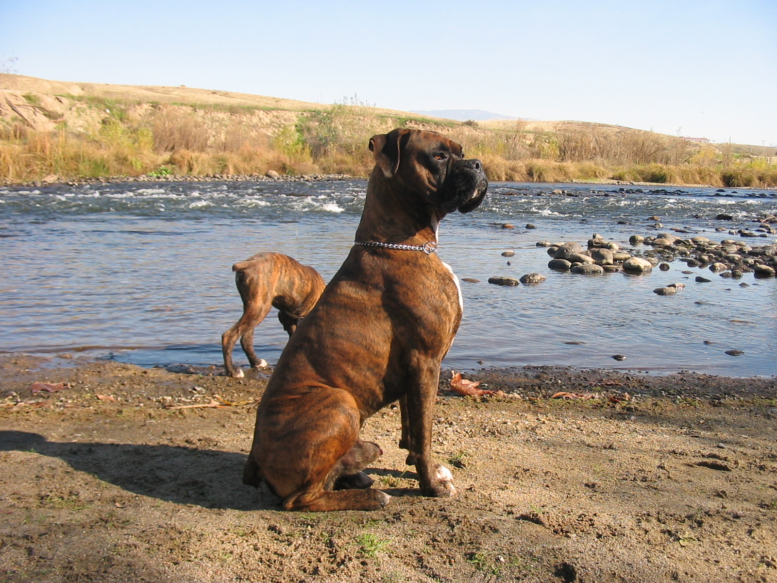 Foreground: 2.5 year old boxer named Kenobi at the Kern River near Hart Park. Background is Kenobi's son Yoda at approximately 6 months old.